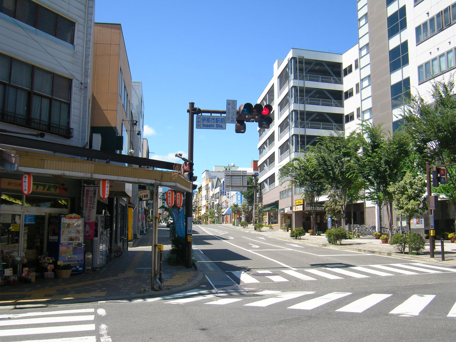 Nagano Prefectural Road 202, Ina Komagatake Line. Toward northwest from the Inashi Station Crossroads. Arai, Ina, Nagano prefecture, Japan.